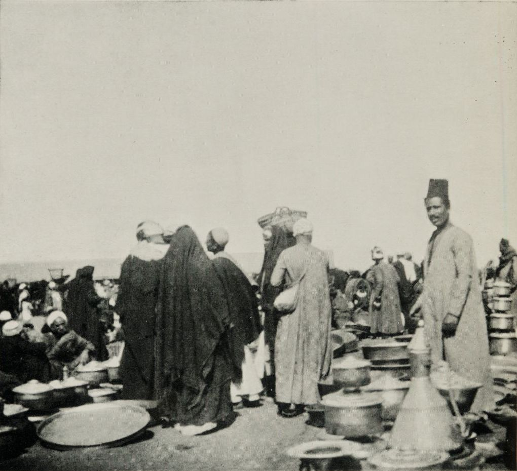 “A COPPERSMITH’S STALL AT THE GIZEH MARKET.This market takes place once a week at the village of Gizeh on the way to the Pyramids.”People at the market, surrounded by copper trays and utensils. Black-and-white photograph.